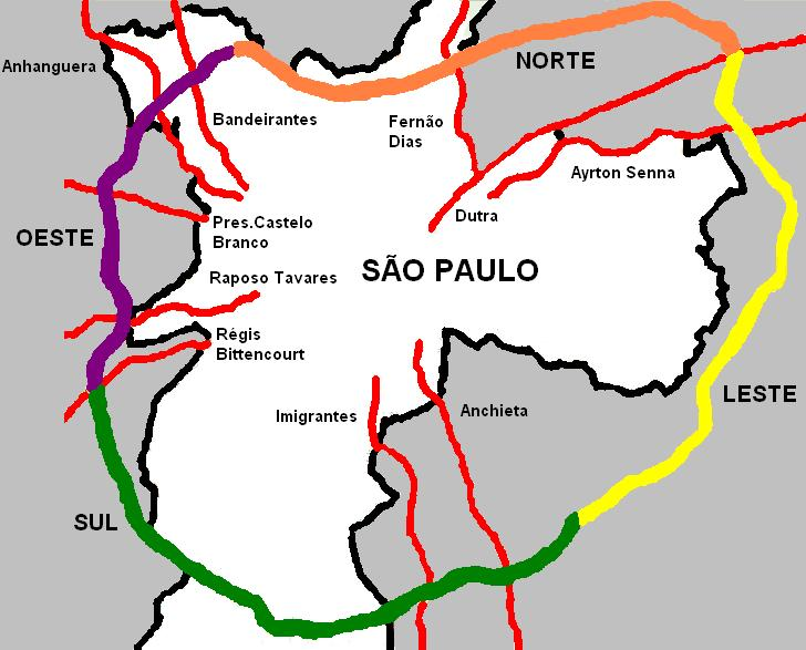 Rodoanel - São Paulo State - Brazil